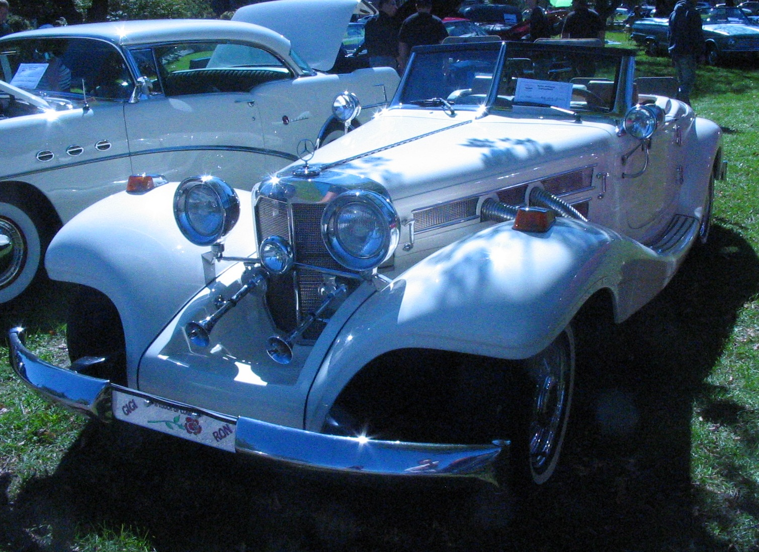 1934 Mercedes-Benz 500K photographed in Salaberry-De-Valleyfield, Quebec, Canada at Auto antique Salaberry-De-Valleyfield 2011.